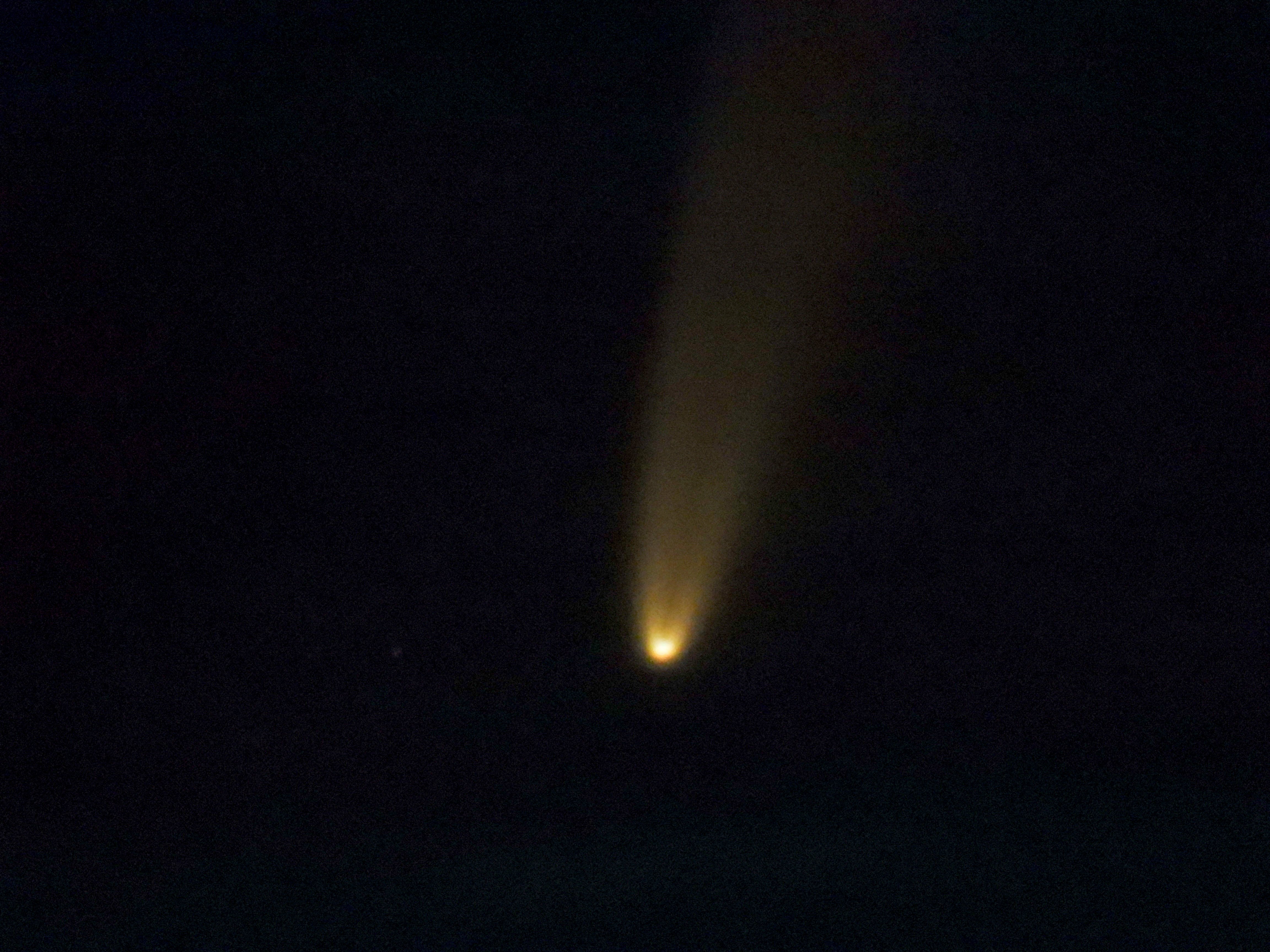 This photo is taken from Zuzici, Istria, Croatia, 08.07.2020. 4 in the morning with Nikon P1000 (3000 mm).